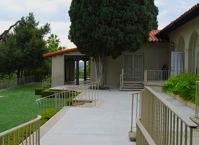 Kellogg Mansion at California State Polytechnic University, Pomona (Cal Poly Pomona)